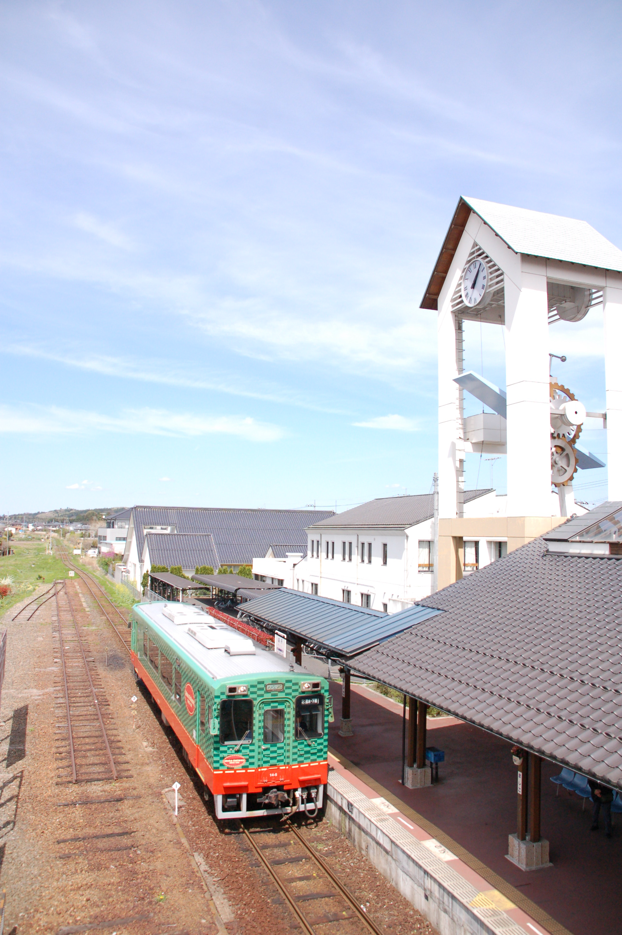 A Mooka Railway train at Mashiko Station